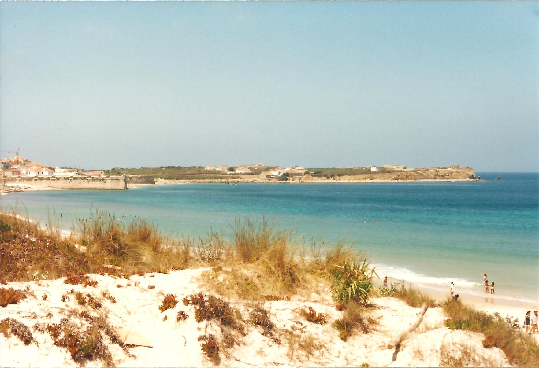 This is a photography of a Site of Community Importance in Portugal with the ID: PTCON0056. Natura2000 entry, EEA entry